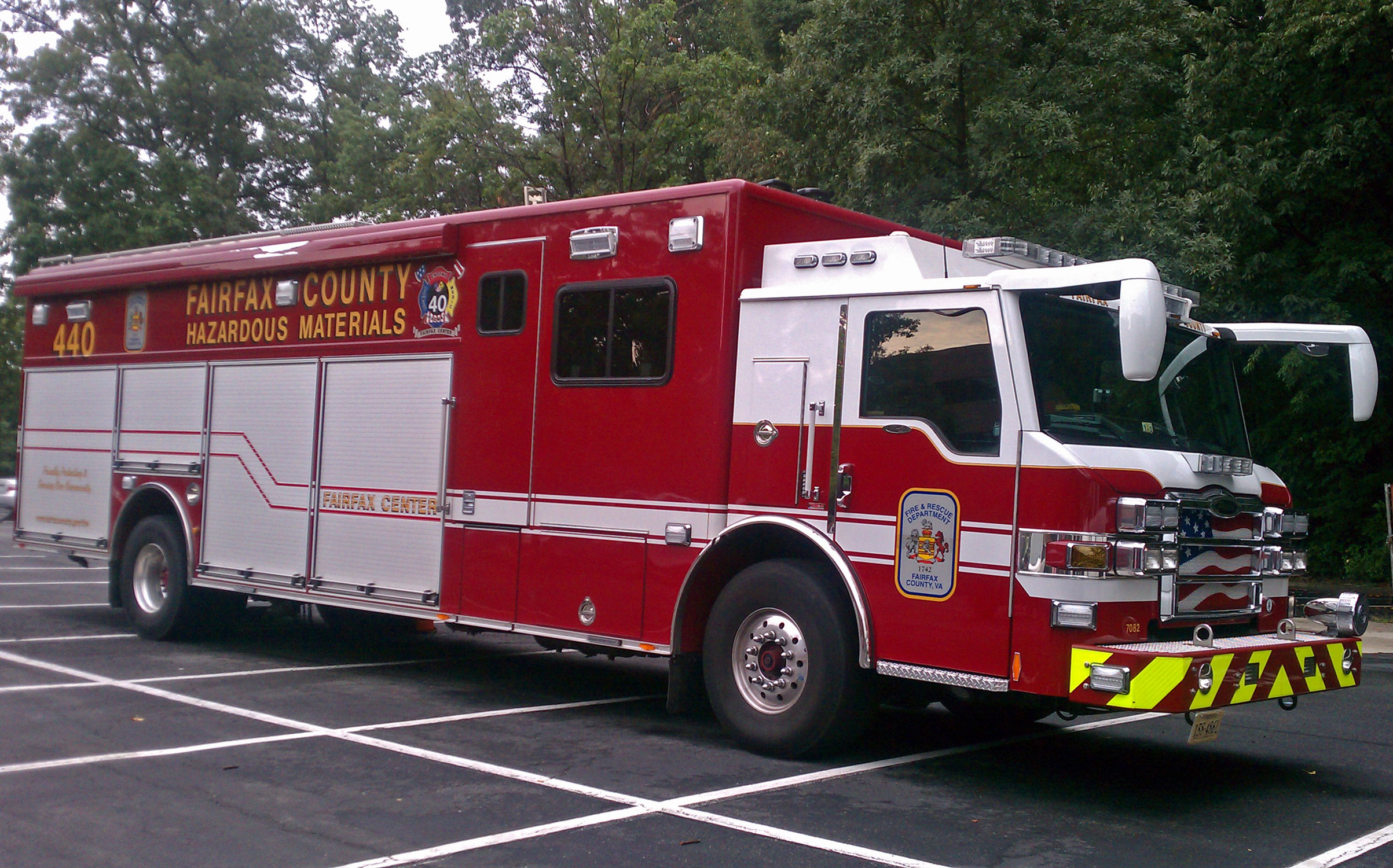 Fairfax County Fire Station 440 hazardous materials truck.